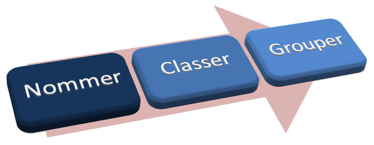 The terminological processus